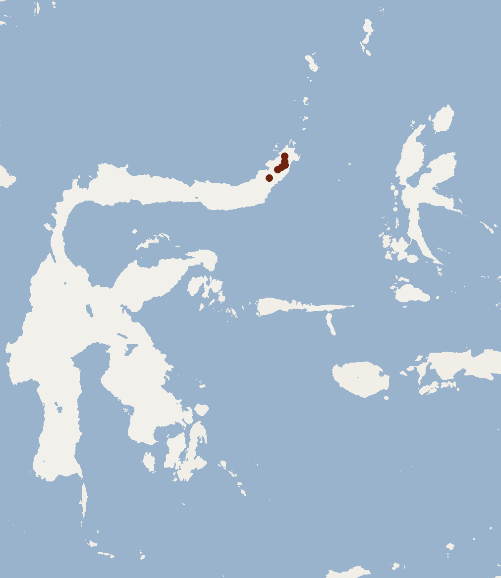 According to Musser & Durden, 2014